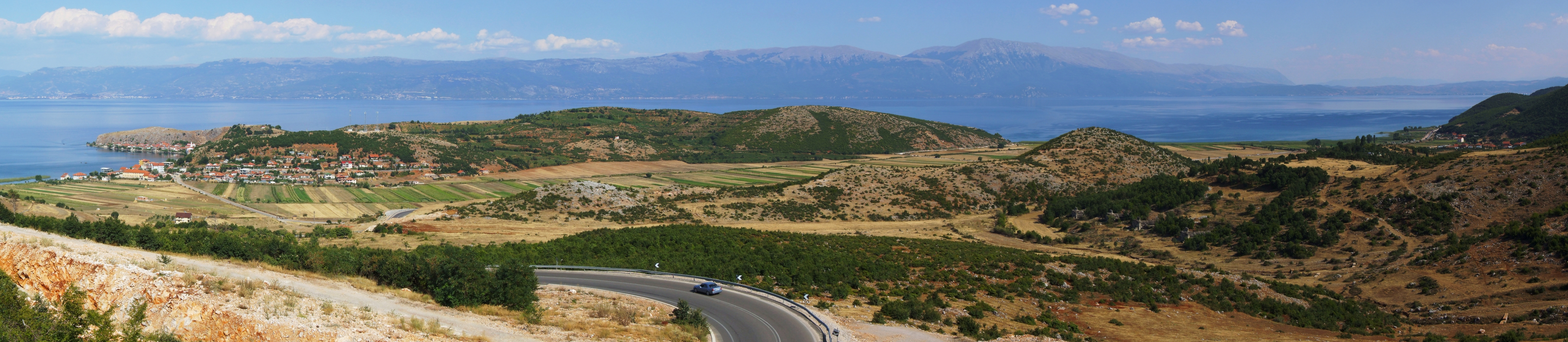 Albania - Lin and Ohrid Lake